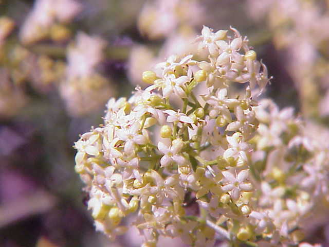 Species: Galium verum Family: Rubiaceae Image No. 2